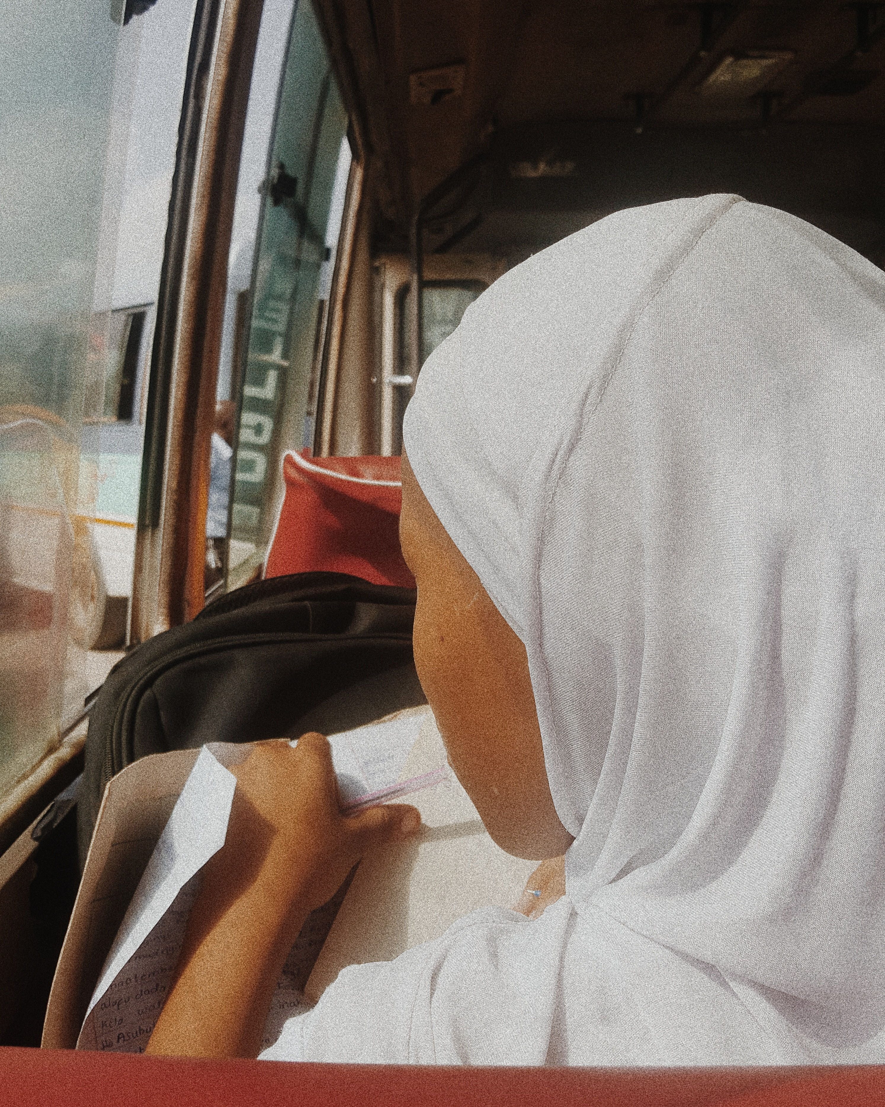 Here is a Tanzanian local school student doing homework in a bus on her way back home from school, the main reason is because she will not have enough time to finnish the work when she gets home due to chores and other home activities. Kiswahili: Hapa unamuona mwanafunzi wa shule ya serikali akifanya kazi ya nyumbani kwenye basi, kwasababu akifika nyumbani hatopata muda wa kutosha kumalizia kazi hiyo kwasababu ya majukumu tofauti ya nyumbani. This is an image with the theme "Africa on the Move or Transport" from: Tanzania